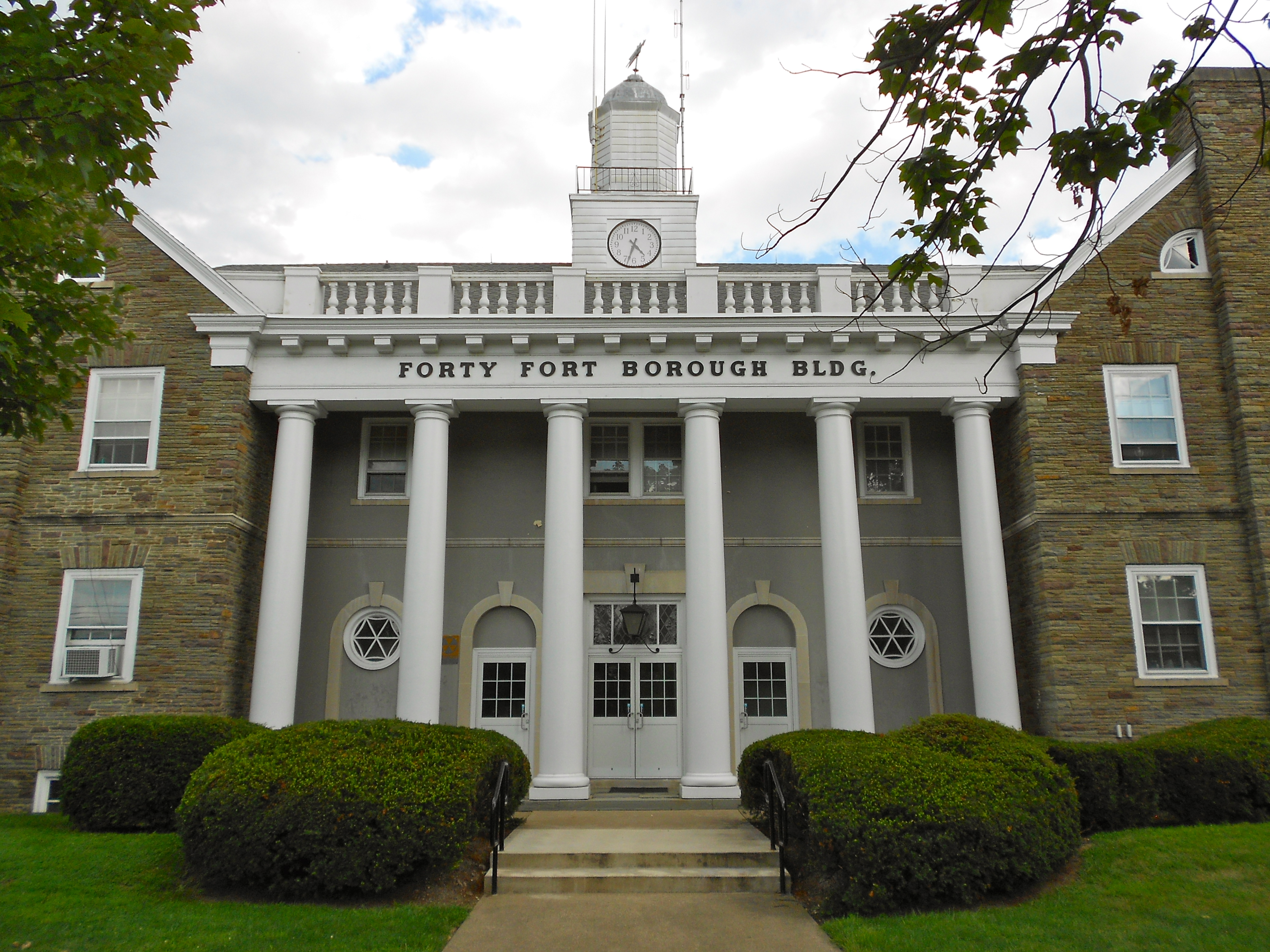 Borough Hall in Forty Fort, Pennsylvania.